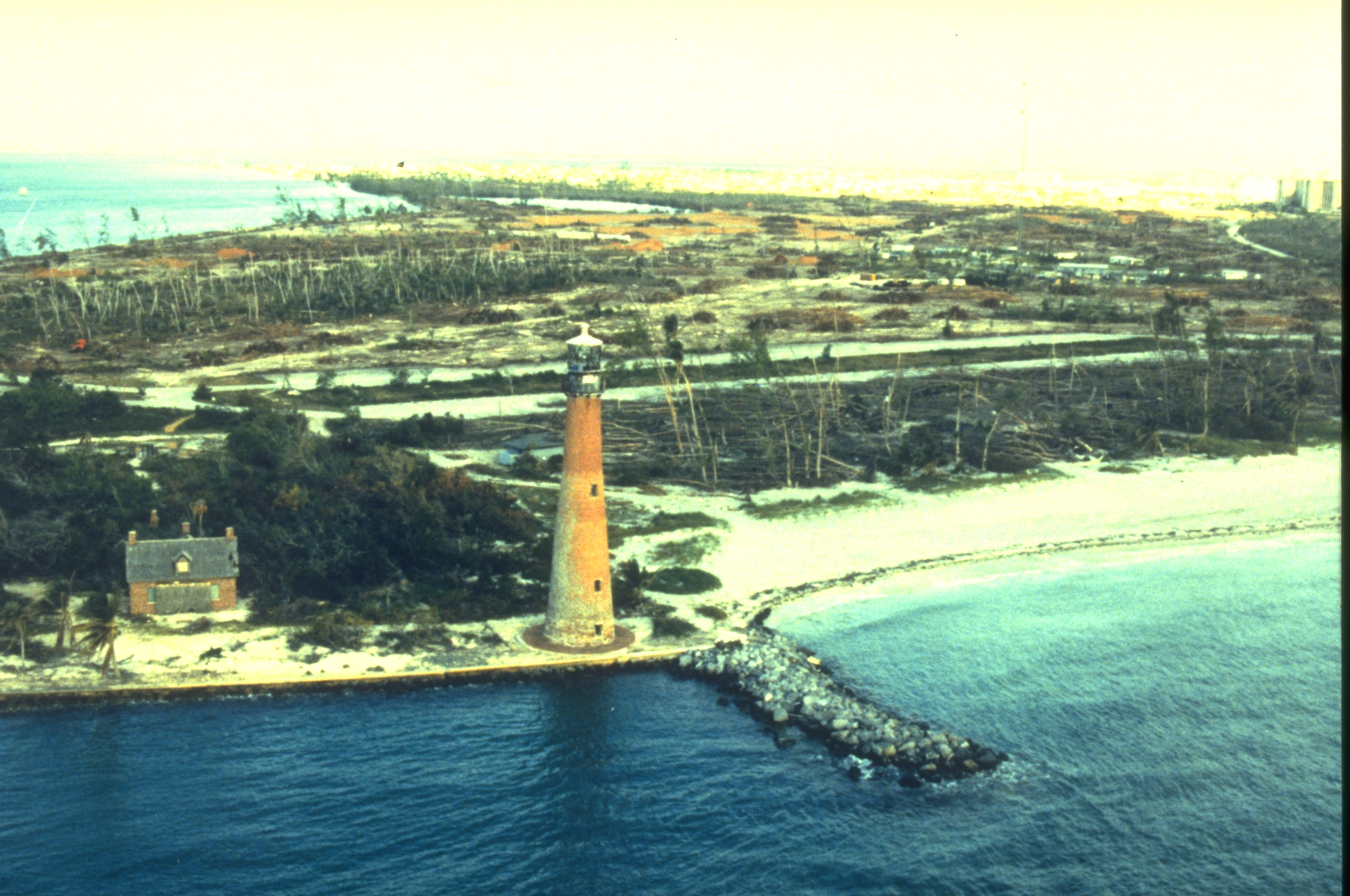 Dade County, FL, August 24, 1992 -- An aerial view showing damage from one of the most destructive hurricanes in America�s history. One million people were evacuated and 54 died in this hurricane. FEMA News Photo